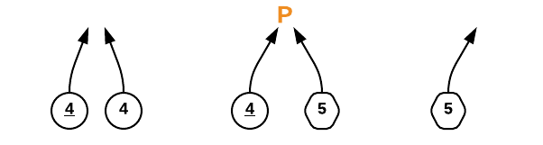 Step 4